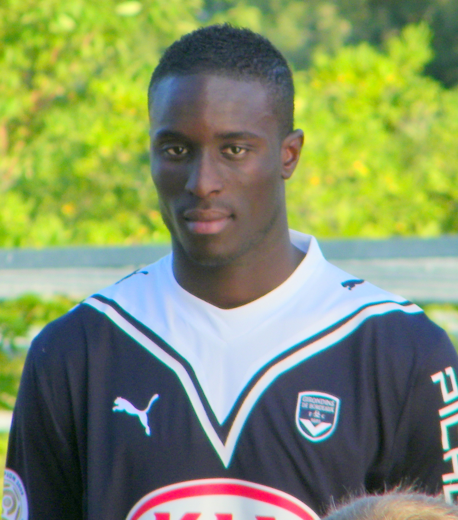 Ludovic Sané, player at FC Girondins Bordeaux. Taken by Valentin Trijoulet. Public domain.